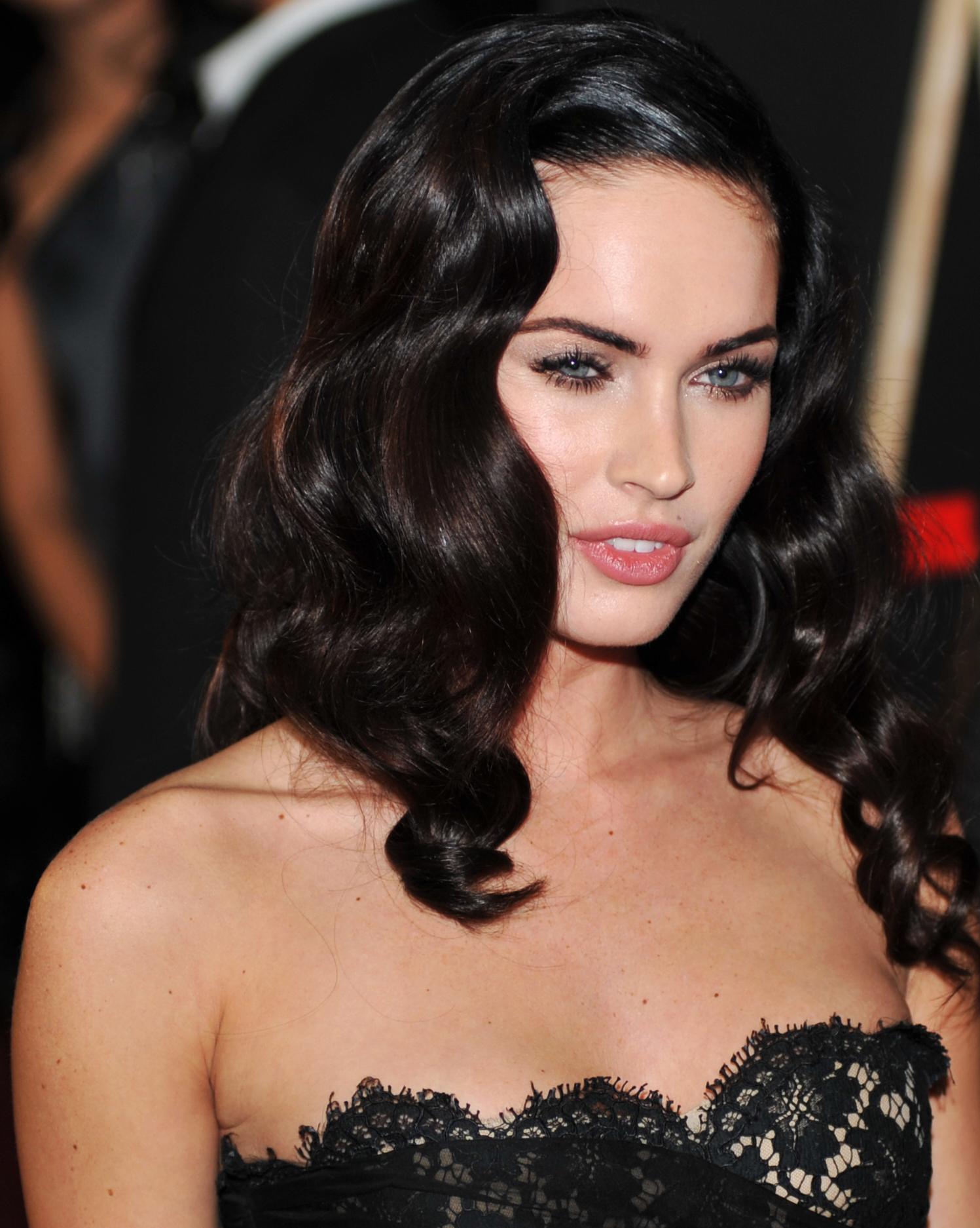 Megan Fox @ Jennifer's Body screening